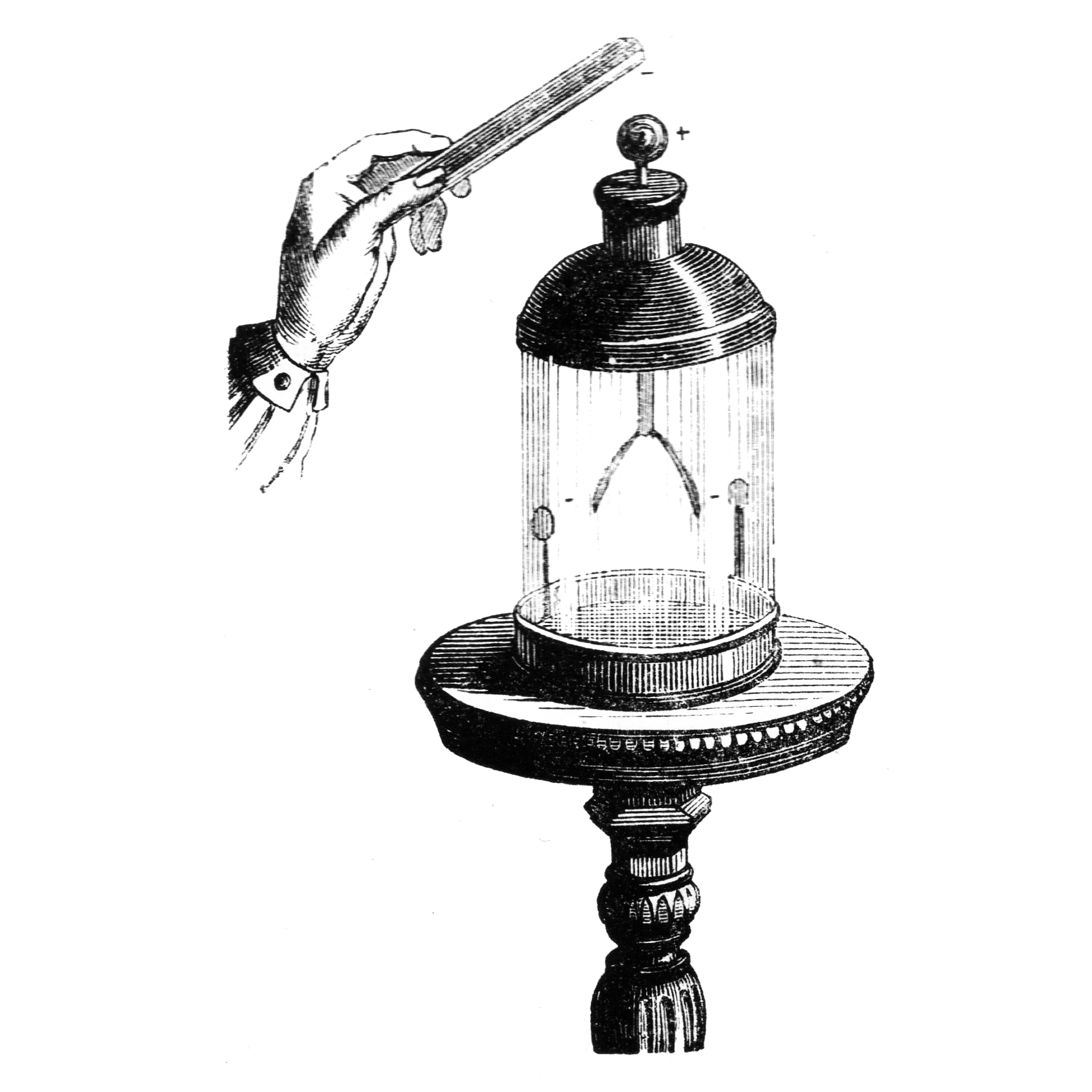 Gold-leaf electroscope from "Opfindelsernes Bog" (Book of inventions) 1878 by André Lütken, Ill. 284. This is an antique scientific instrument that detects electric charge consisting of two delicate gold leaves suspended from a metal electrode. It is demonstrating electrostatic induction. When a negatively charged object is brought near the top terminal, the charges in the vertical conductor separate. The positive charges are attracted to the top of the terminal, while the negative charges are repelled into the gold leaves. Since they have the same charge, they spread apart from mutual repulsion. The two grounded strips in the jar flanking the leaves are a safety measure; if too strong a charge is applied to the instrument, the leaves will touch the ground electrodes and discharge before they tear.